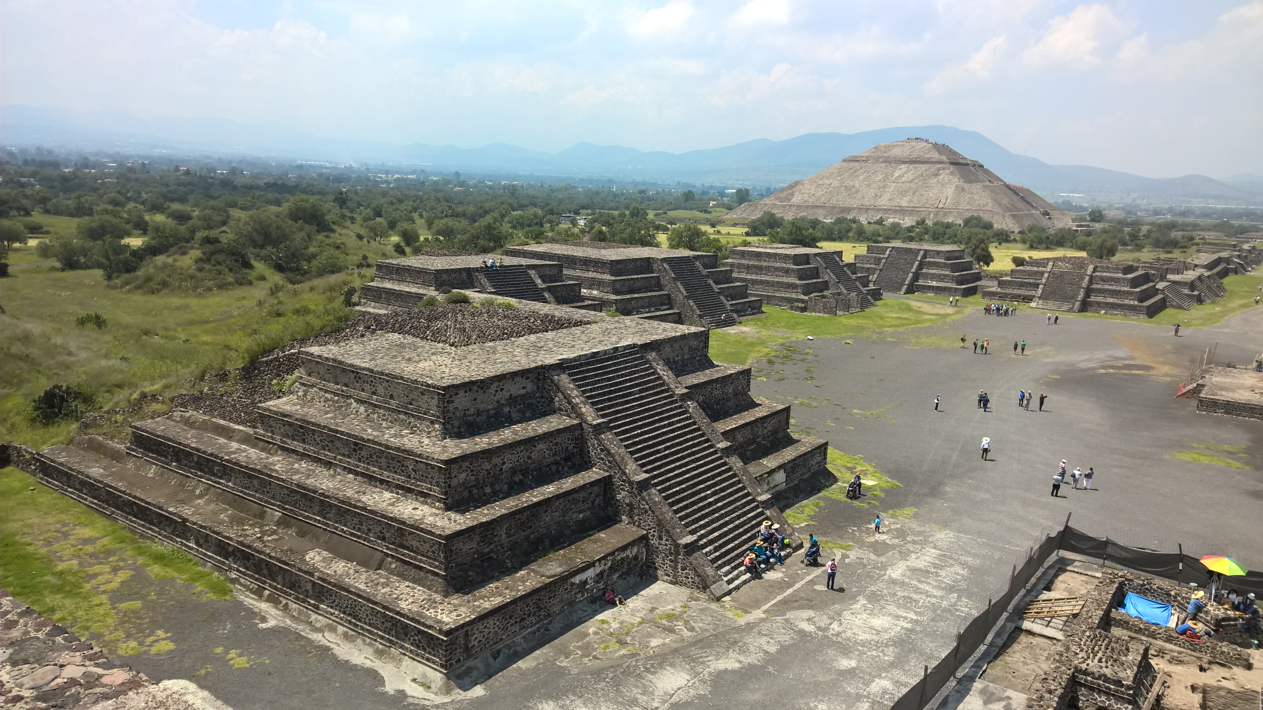 View from Pirámide de la Luna